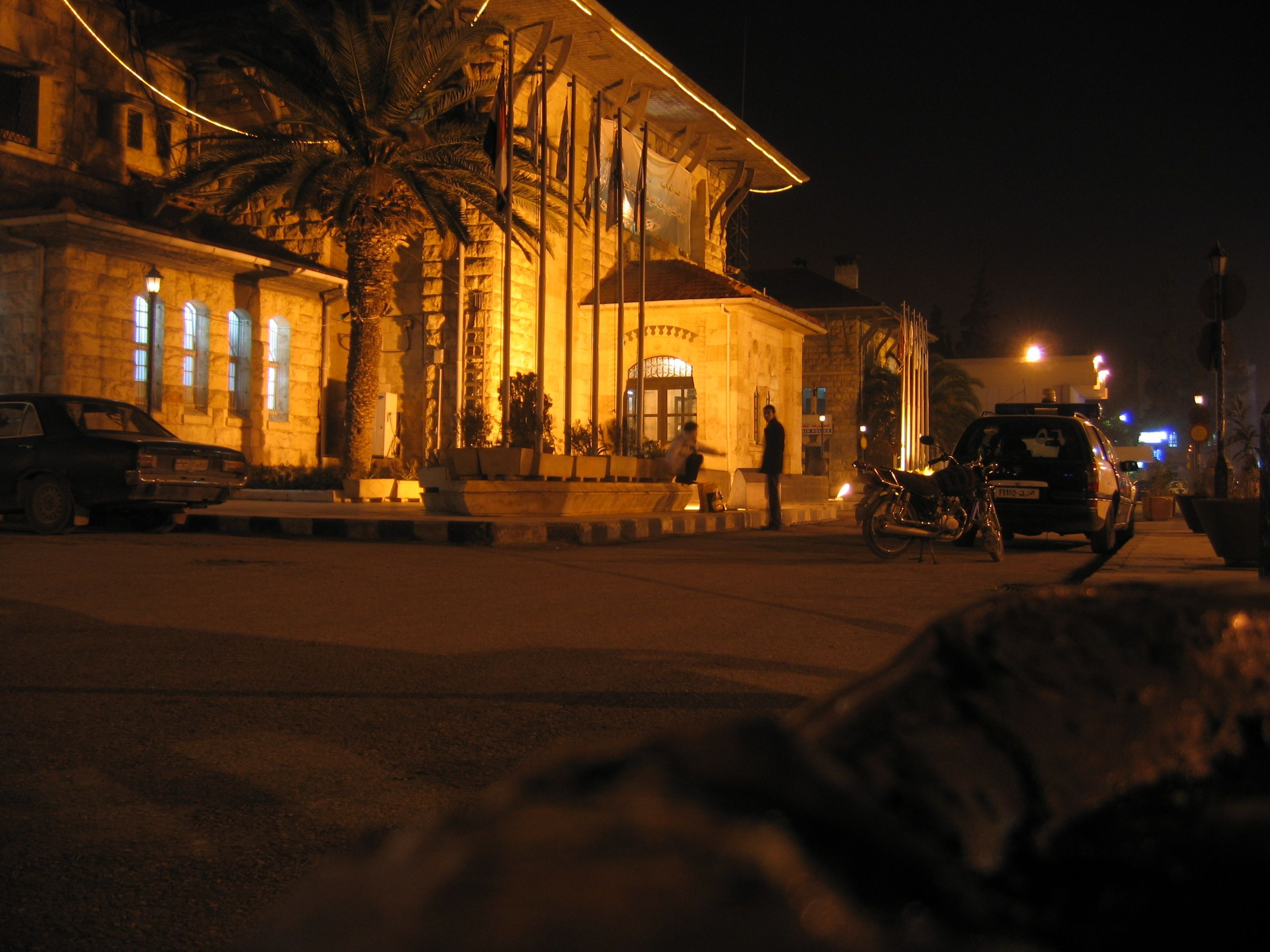 Bagdad-Railwaystation, Aleppo, Syria